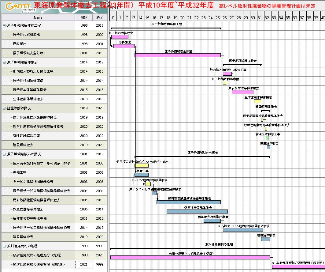 Tokai Nuclear Plant decommission process